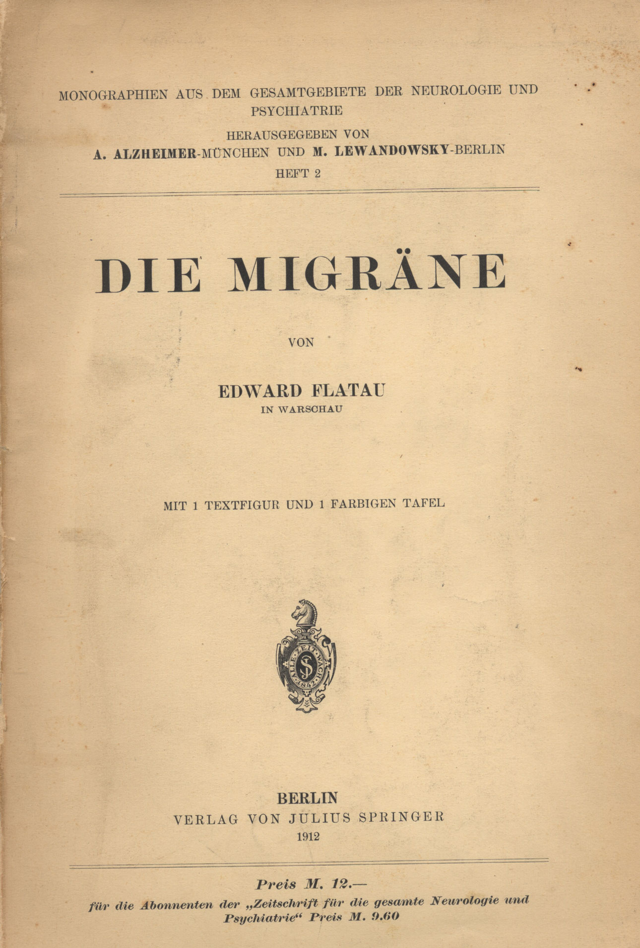 First page of Edward Flatau "Die Migrane" published in Berlin in 1912 by Springer